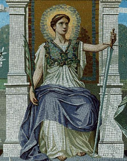 Frederick Dielman (1847-1935) designed this mosaic representing Law for the United States Library of Congress, and it was subsequently manufactured in Venice, Italy.[1] A young woman on a marble throne holds a sword in one hand to chastise the guilty and a palm branch in the other hand to reward the meritorious. A glory surrounds her head, and on her breast is the aegis of Minerva, signifying she is clad in the armor of righteousness and wisdom. Other portions of this large mosaic are omitted from this image. This mosaic indicates not only the judicial but the legislative side of law; typical symbols of justice are less conspicuous or omitted, and the woman has a freer air of command.[2]